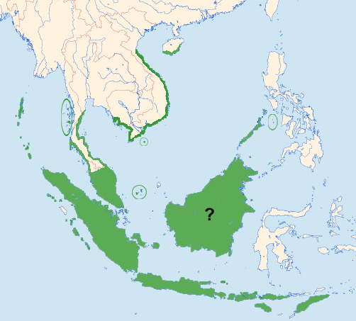 Distribution of Edible-nest Swiftet (Aerodramus fuciphagus). Resident range: dark green Data Source: Phil Chantler, Gerald Driessens: A Guide to the Swifts and Tree Swifts of the World; Pica Press; Mountfield 2000; ISBN 1-873403-83-6